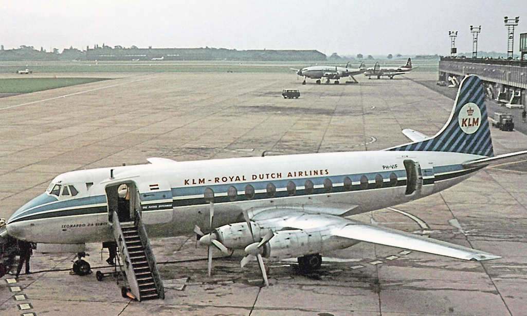 Vickers Viscount 803 PH-VIF "Leonardo da Vinci" of KLM Royal Dutch Airlines at Manchester Airport in 1964